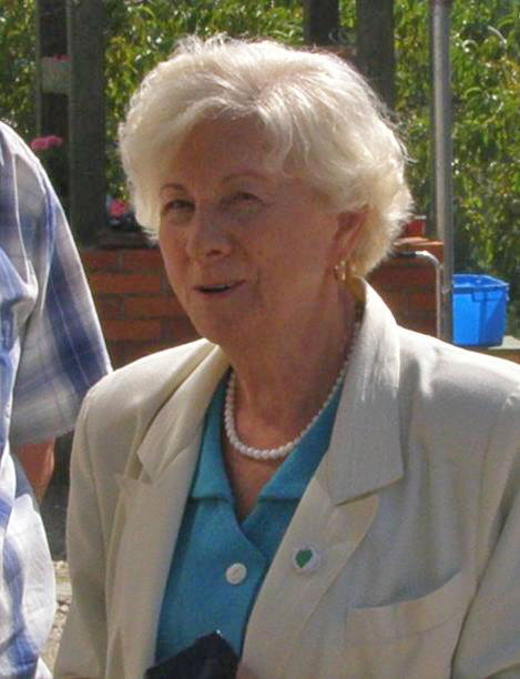 Irén Pavlics (Irena Pavlič) slovene author and journalist in Hungary